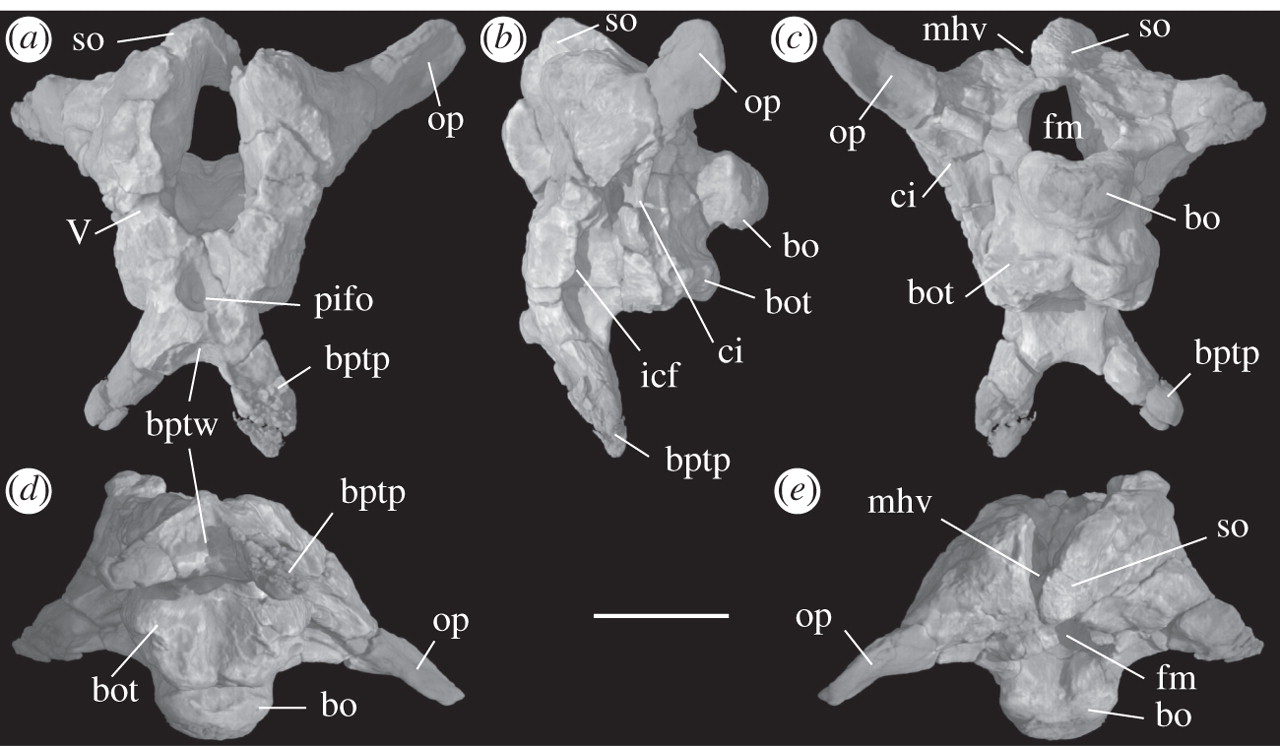 Sarahsaurus aurifontanalis, holotype (TMM43646-2). Three-dimensional reconstructions from HRXCT of the braincase ( in (a) anterior, (b) left lateral, (c) posterior, (d) ventral and (e) dorsal views. bo, basioccipital; bot, basicranial tuber; bptp, basipterygoid process; bptw, wall between basipterygoid processes; ci, crista interfenestralis; fm, foramen magnum; icf, foramen for internal carotid artery; mhv, canal for middle cerebral vein; op, opisthotic-exoccipital; pifo, pituitary fossa; so, supraoccipital; V, trigeminal nerve foramen. Scale bar, 2 cm.